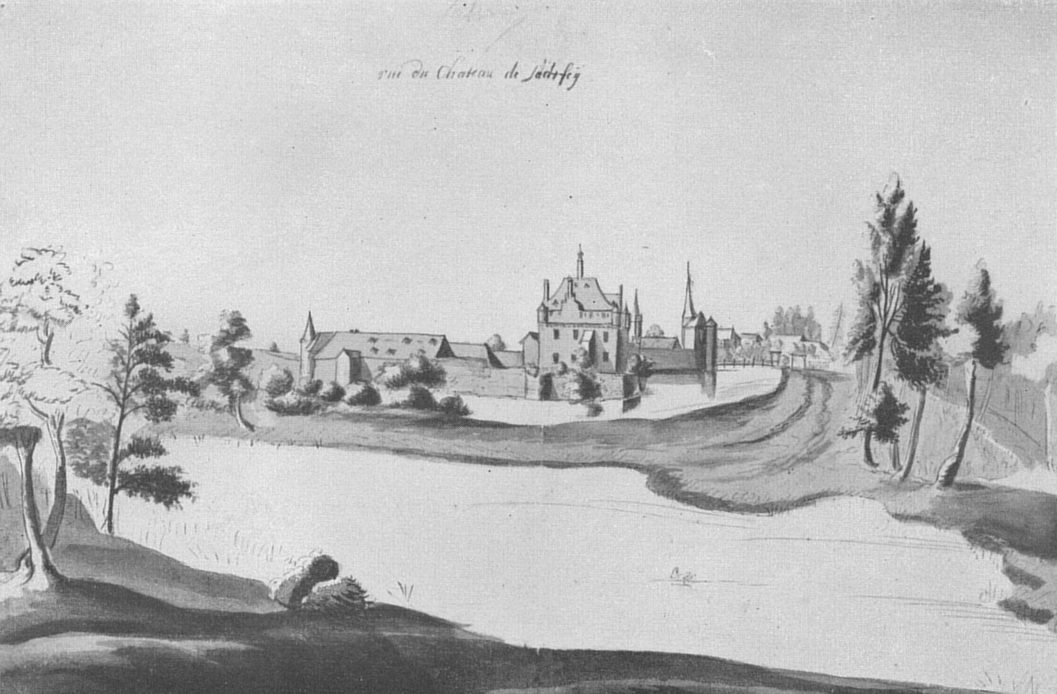 Drawing of Satzvey Castle, western aspect